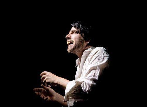 Matt Roper performs his alter-ego Wilfredo in London, 2010